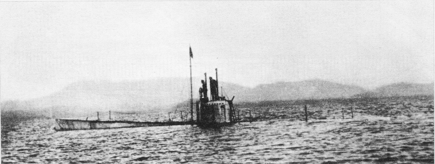 The Imperial Russian submarine «Kasatka».